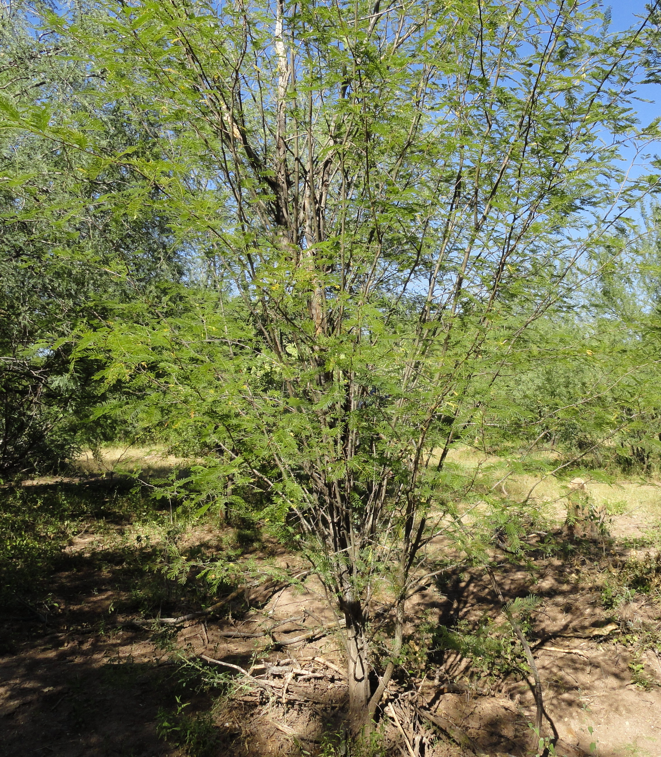 Planta Acacia cochliacantha distribuida en el norte de México